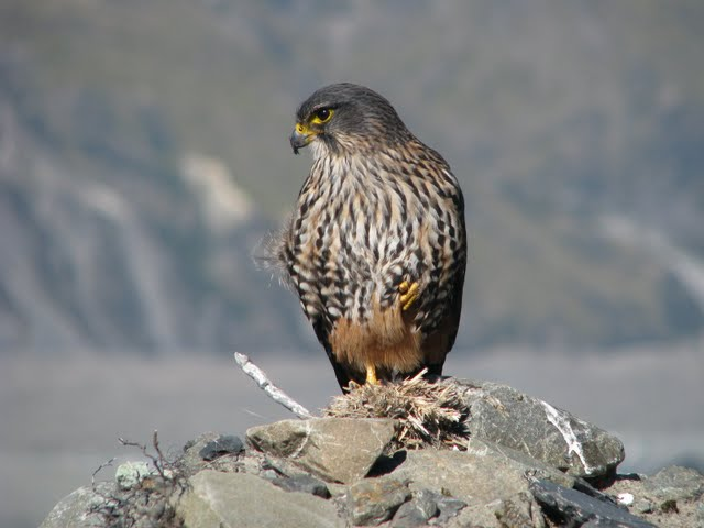 NZ Falcon in Mt Cook national park